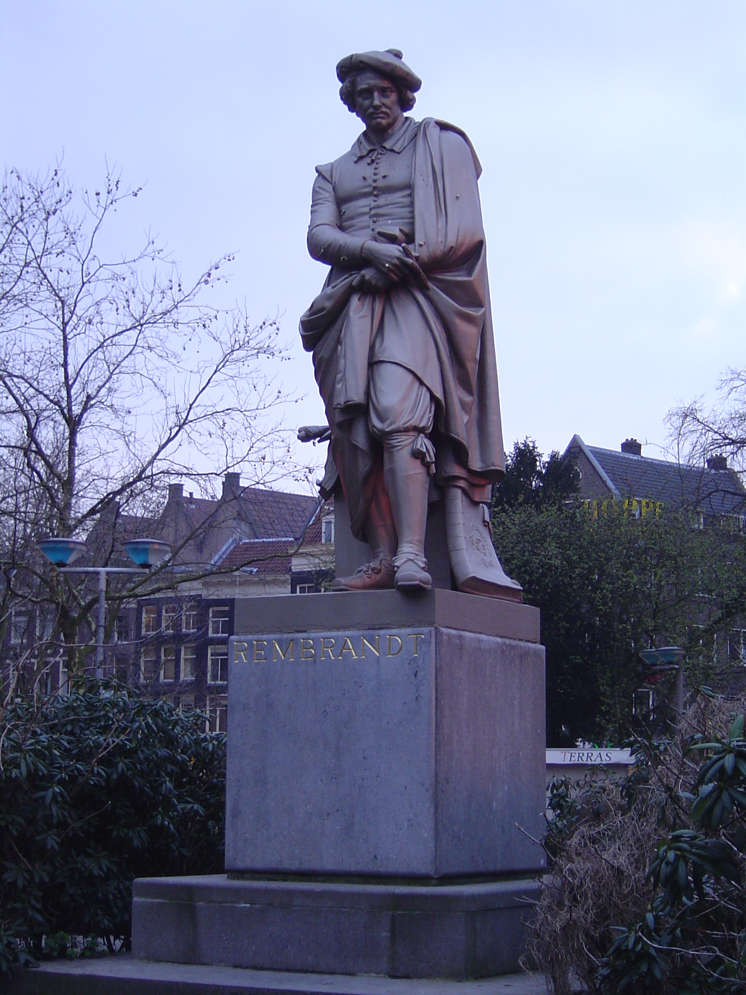 Click here to see where this photo was taken. By courtesy of BeeLoop SL (the Mapware & Mobility Solutions Company).